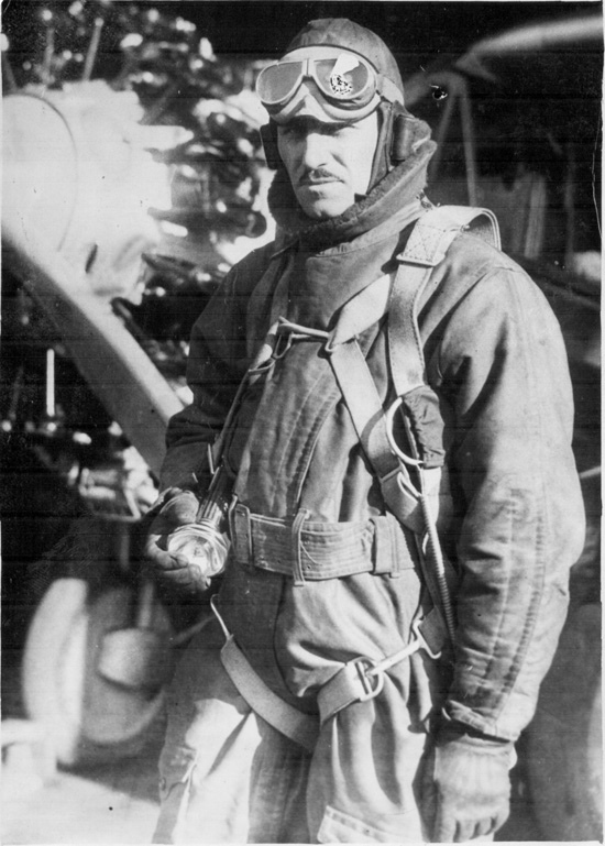 Catalog #: BIOL00552 Last Name: Le Boutillier First Name: Oliver Notes: Repository: San Diego Air and Space Museum Archive